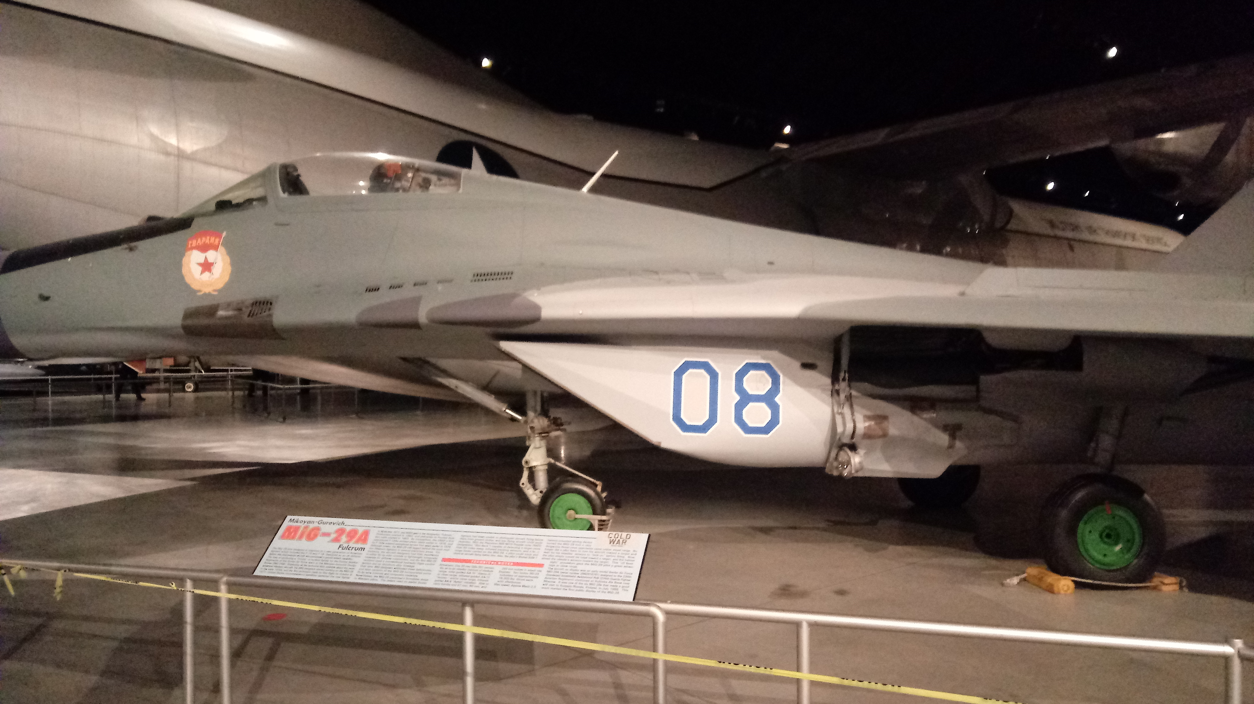 MiG-29A at Wright-Patterson Air Force Museum